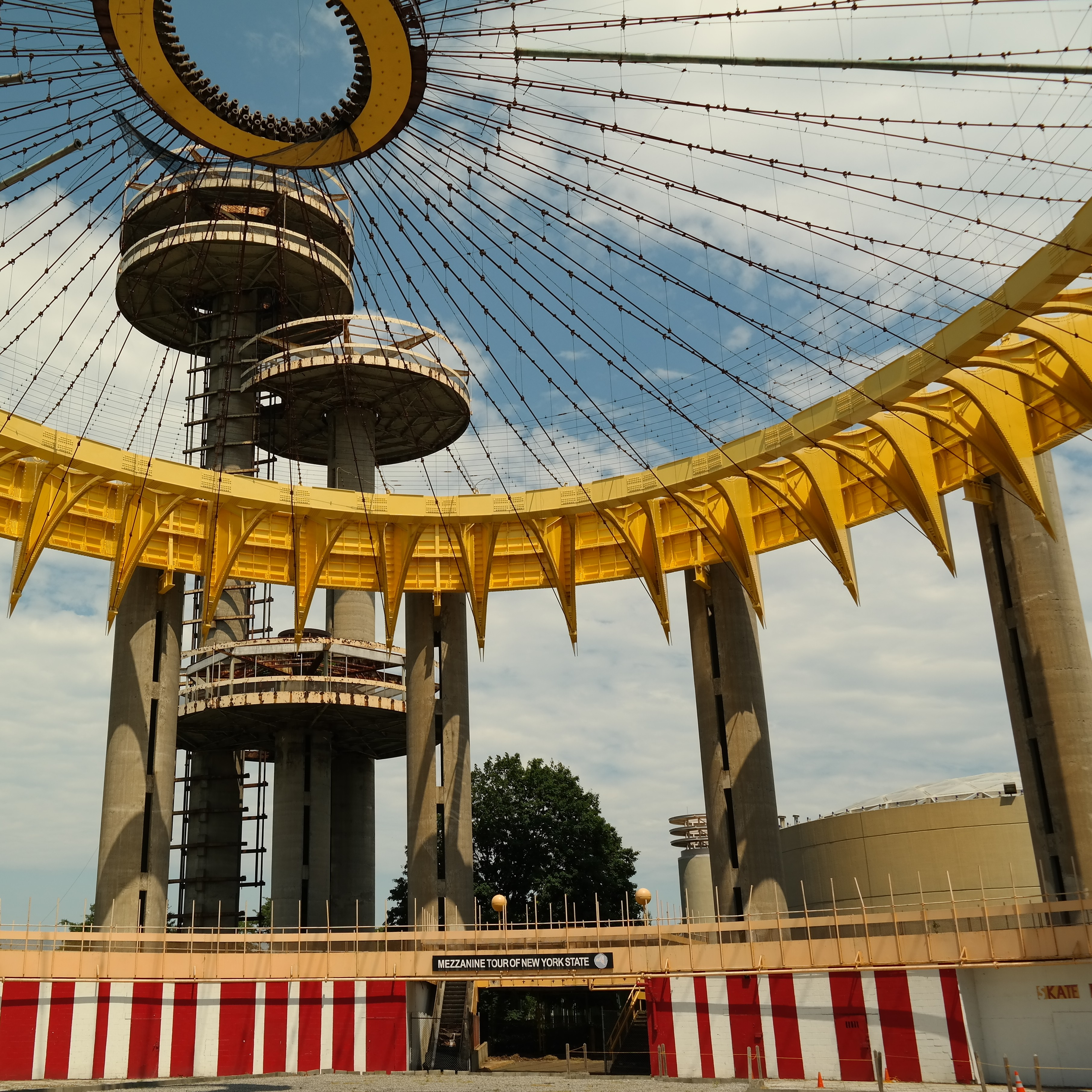 This is a photo of the New York State Pavilion in Flushing Meadows Corona Park in New York City, which was created as part of the 1964-1965 World's Fair. Neglected for decades, in recent years volunteers from the New York State Pavilion Paint Project have been working to restore it, promoting public access, and advocating for funding to advance those goals. This photo was taken during a special tour of the facility conducted in cooperation with the NYC Department of Parks and Recreation and in association with Untapped Cities.